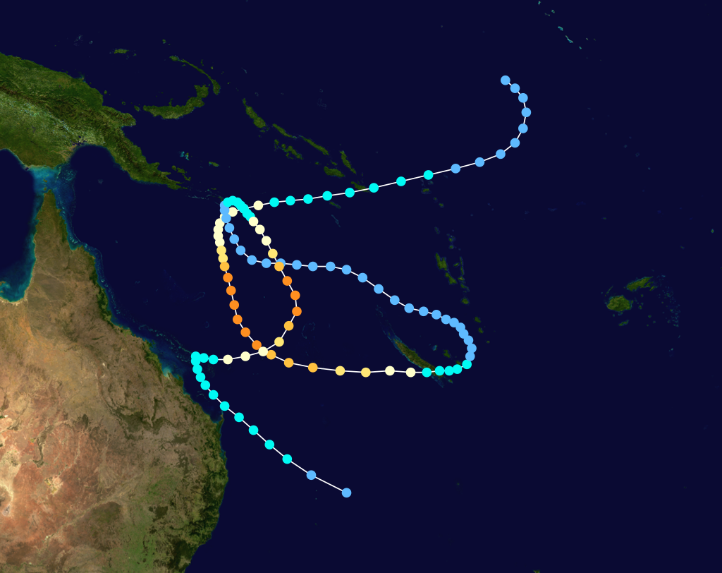 Cyclone Rewa track. Uses the color scheme from the Saffir-Simpson Hurricane Scale. The points show the location of each storm at six-hour intervals. The colour represents the storm's maximum sustained wind speeds as classified in the Saffir-Simpson Hurricane Scale (see below), and the shape of the data points represent the nature of the storm. Saffir–Simpson scale Tropical depression≤38 mph≤62 km/h Category 3111–129 mph178–208 km/h Tropical storm39–73 mph63–118 km/h Category 4130–156 mph209–251 km/h Category 174–95 mph119–153 km/h Category 5≥157 mph≥252 km/h Category 296–110 mph154–177 km/h Unknown Storm typeTropical cycloneSubtropical cycloneExtratropical cyclone / Remnant low / Tropical disturbance